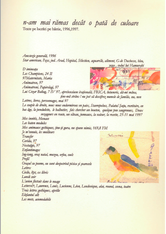 Catalogue Georgeta Naparus 1997